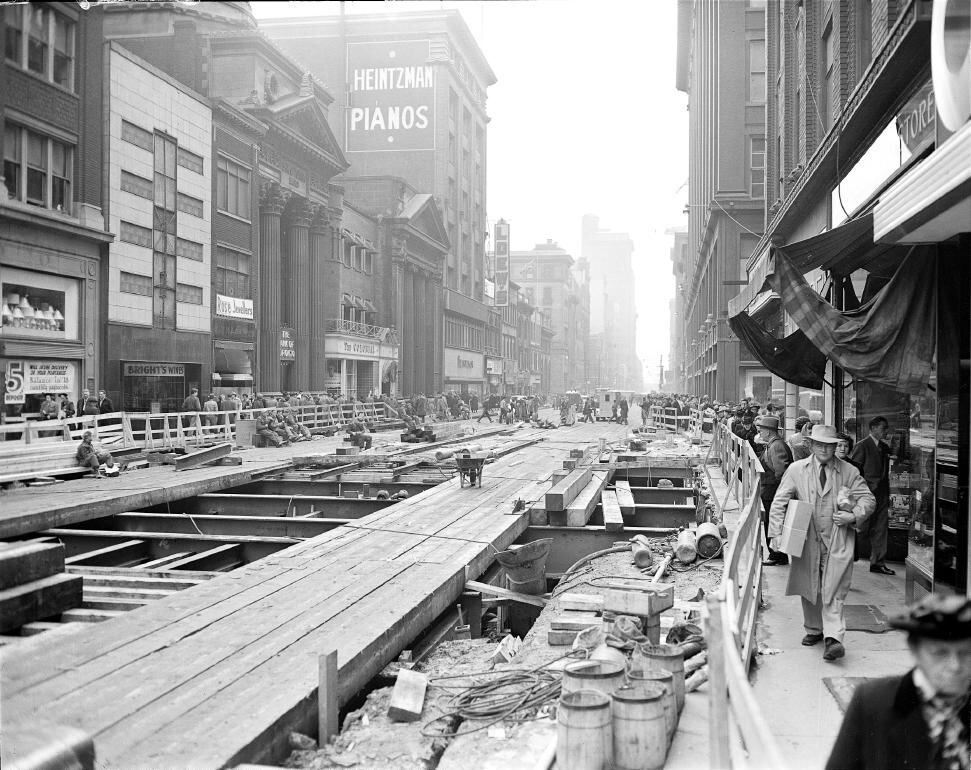 Toronto, Ontario, Canada: construction of the TTC's Yonge Street subway in 1949. Looking south on Yonge from near Albert Street toward Queen Street. The large building at middle distance on the right is the Eaton's department store, replaced (along with the stores in the right foreground) by the Toronto Eaton Centre in 1977. The Loew's cinema became the Elgin Theatre in 1989.